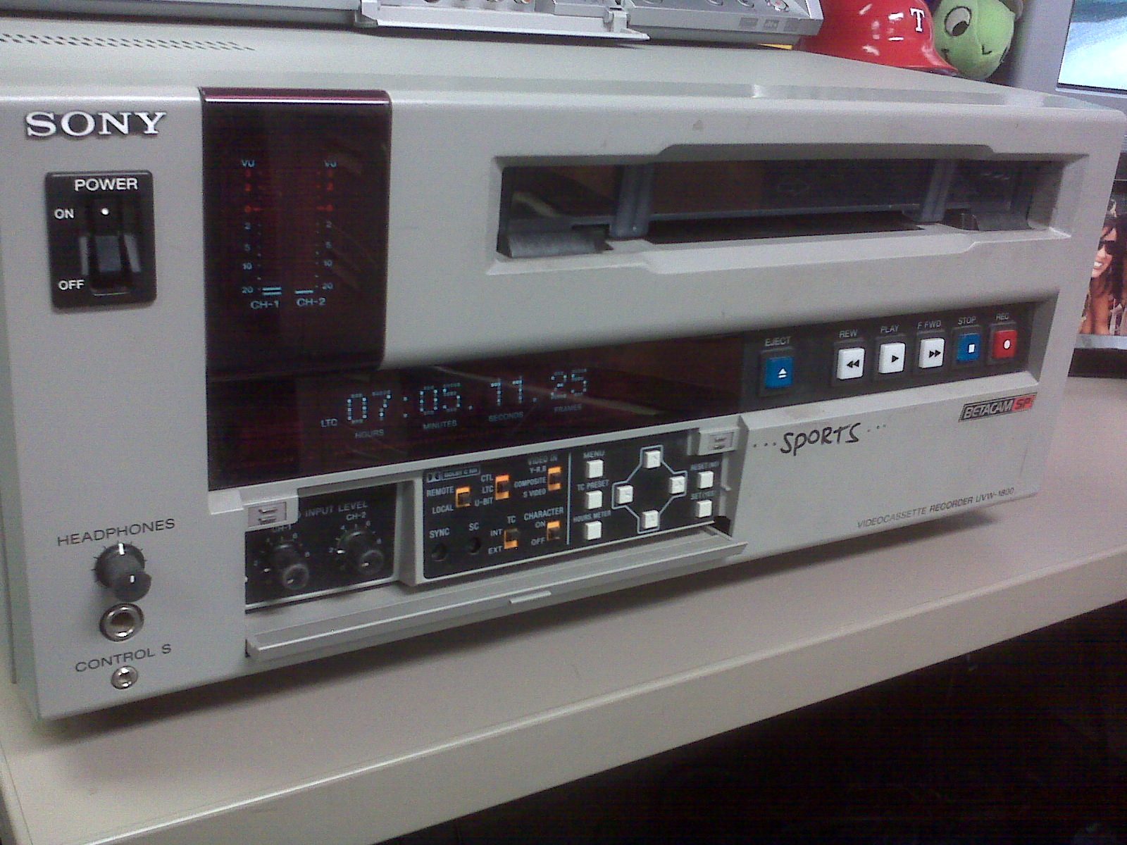 This UVW-1800 BetacamSP VTR is used to record sports highlights at Nexstar Broadcasting's KTAB-TV/KRBC-TV in Abilene, Texas